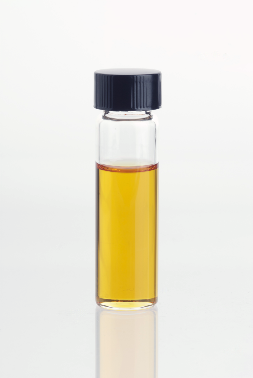 Glass vial containing Myrtle Essential Oil